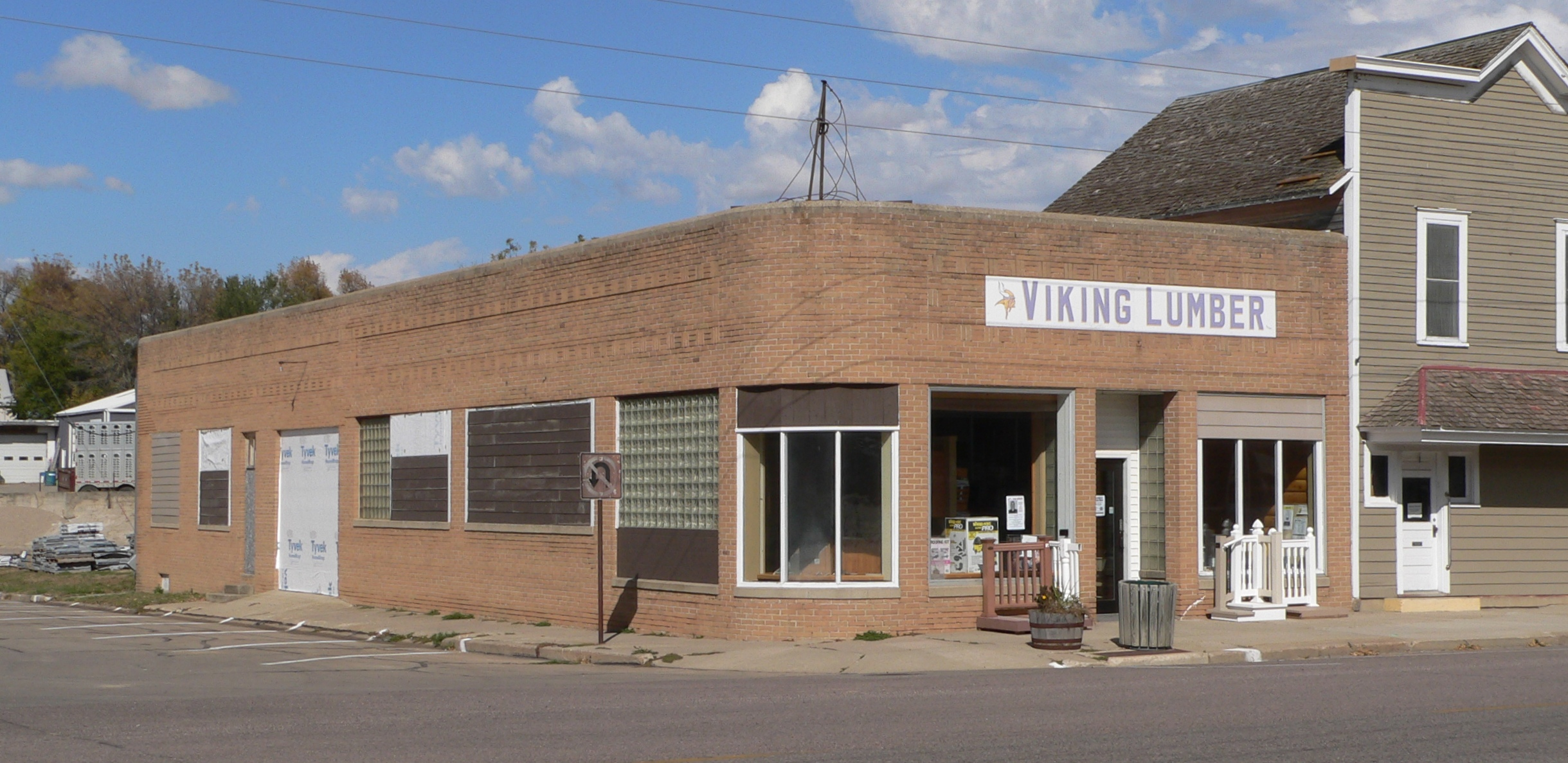 Buildings in downtown Wausa, Nebraska. Twelfth in a series of 13 photos showing the north side of Broadway, beginning at Sherman in the west and moving eastward to Hampton. Viking Lumber is on the northeast corner of Broadway and Hampton.